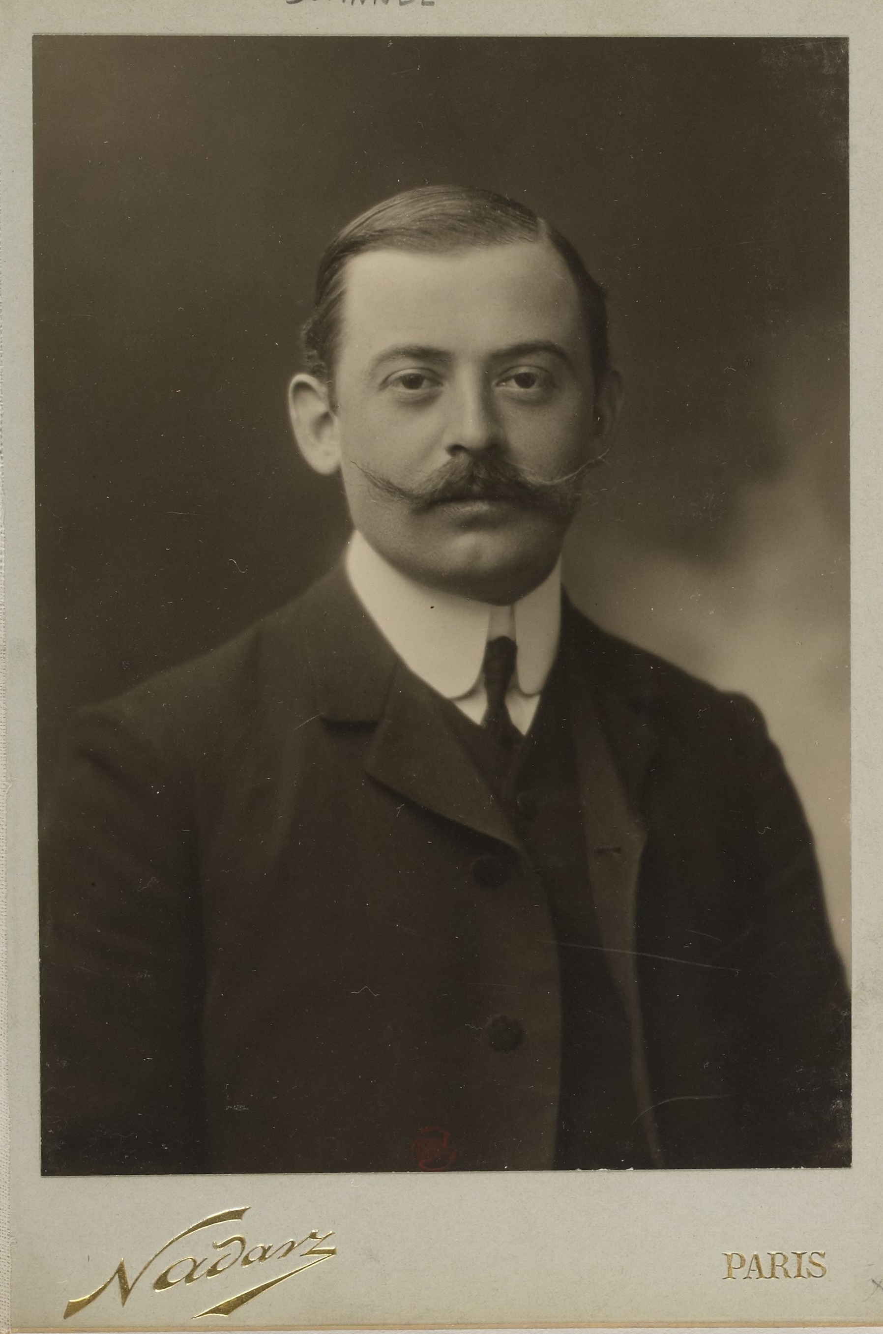 Rene Jeannell, French Entomologist